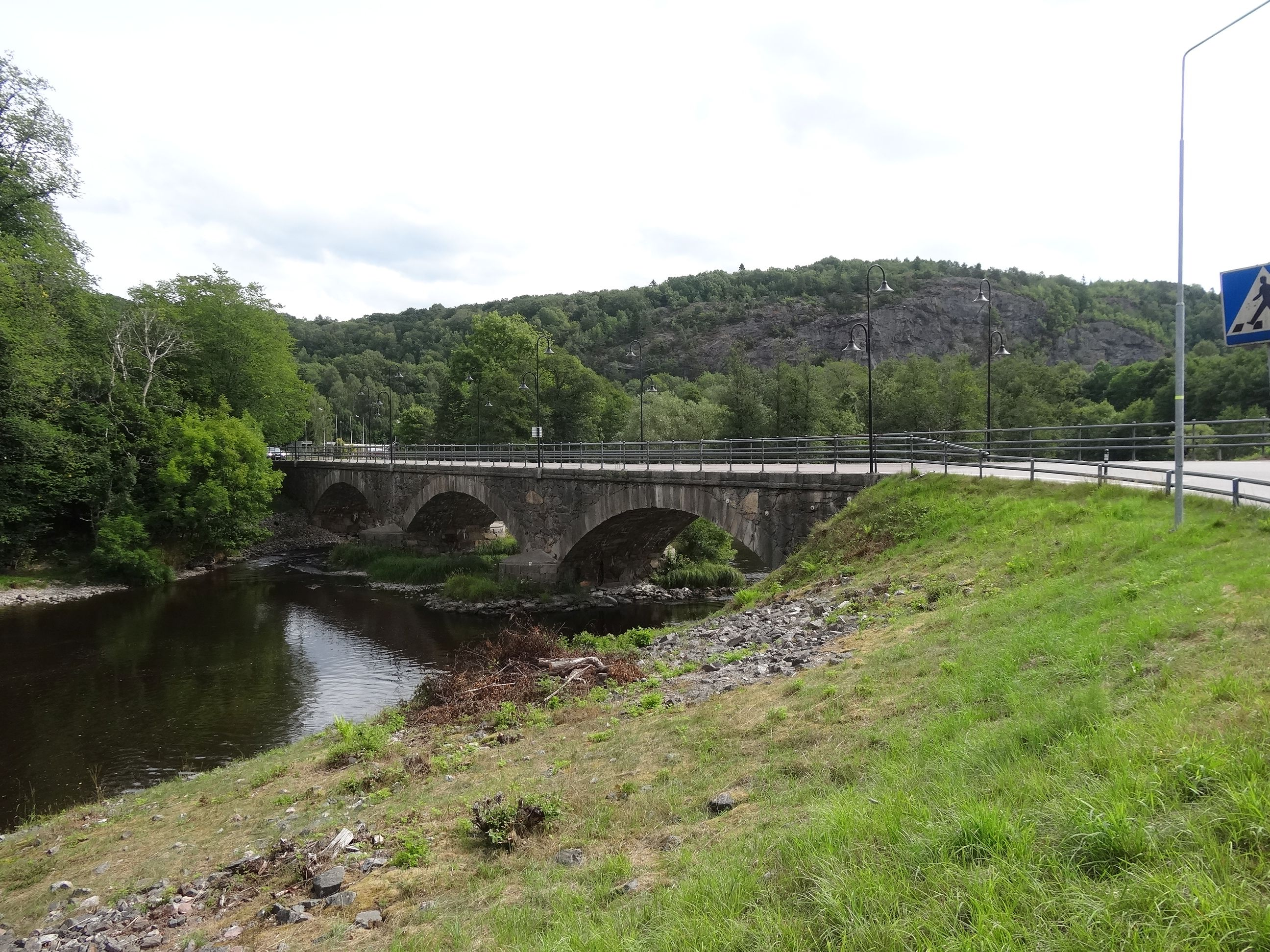 The Kvistrum bridge, Munkedal, Sweden seen from northwest.